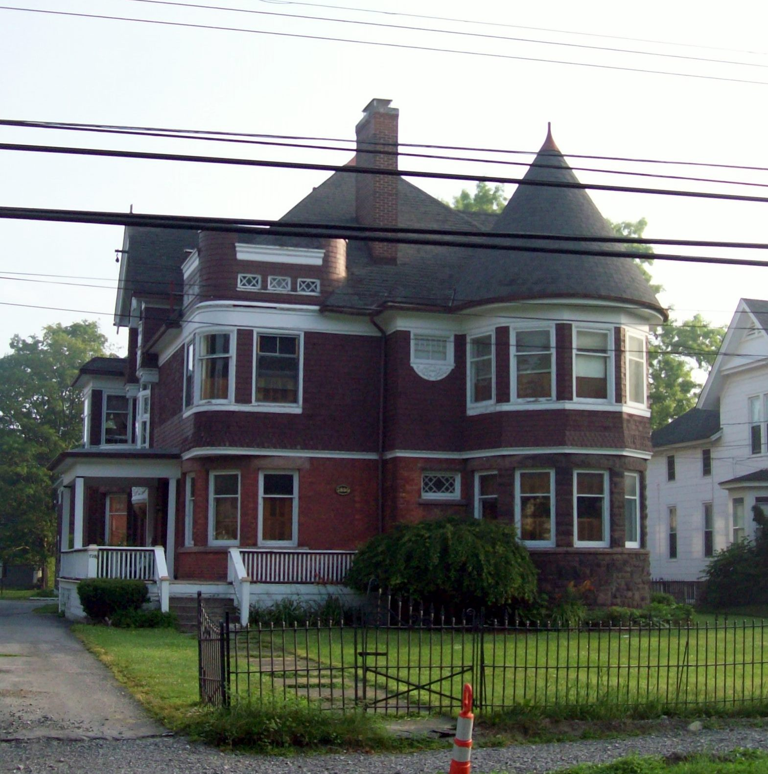 Augustus A. Smith House, Attica, NY, July 2011N